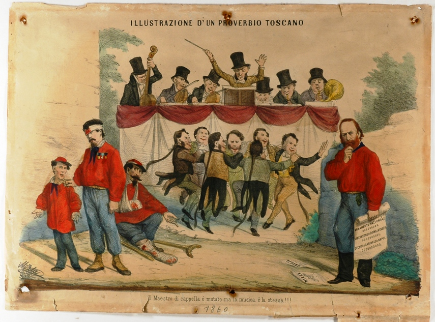 delusion of Garibaldi after 1860